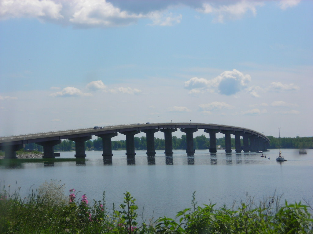 Looking north east from Rouses Point NY